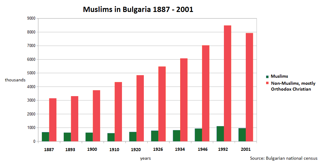 Muslims in Bulgaria 1887-2001. Source used: [1]